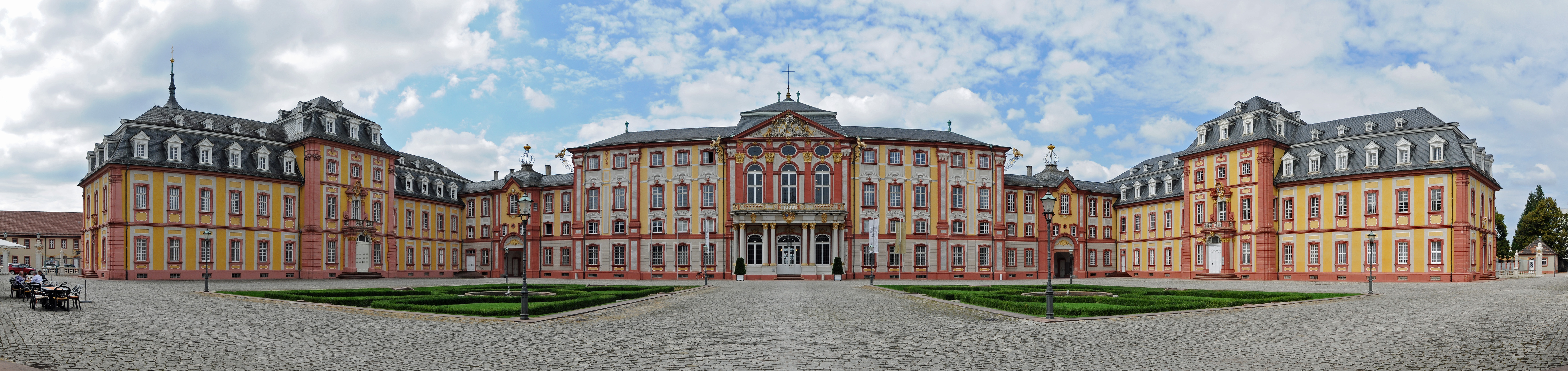 Bruchsal, castle courtyard , 5 pictures stitched